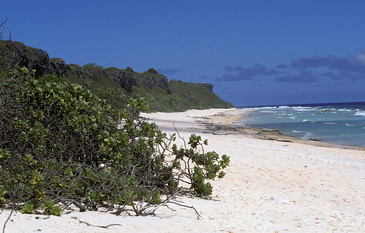 A view along the northern beach on Henderson Island showing Tournefortia argentea growing along the edge of the beach, Pitcairn Islands. Original field notes: In the far eastern Pacific, tree heliotrope is one of the dominant trees, both on upraised limestone islands (strand community) such as Henderson, as well as the low atolls, such as in the Tuamotu Is. & Pitcairn's Ducie Atoll.